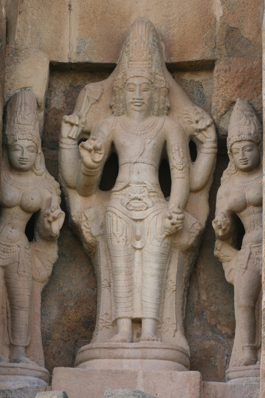 One of the three Chola dynasty Hindu temples at a UNESCO world heritage site.